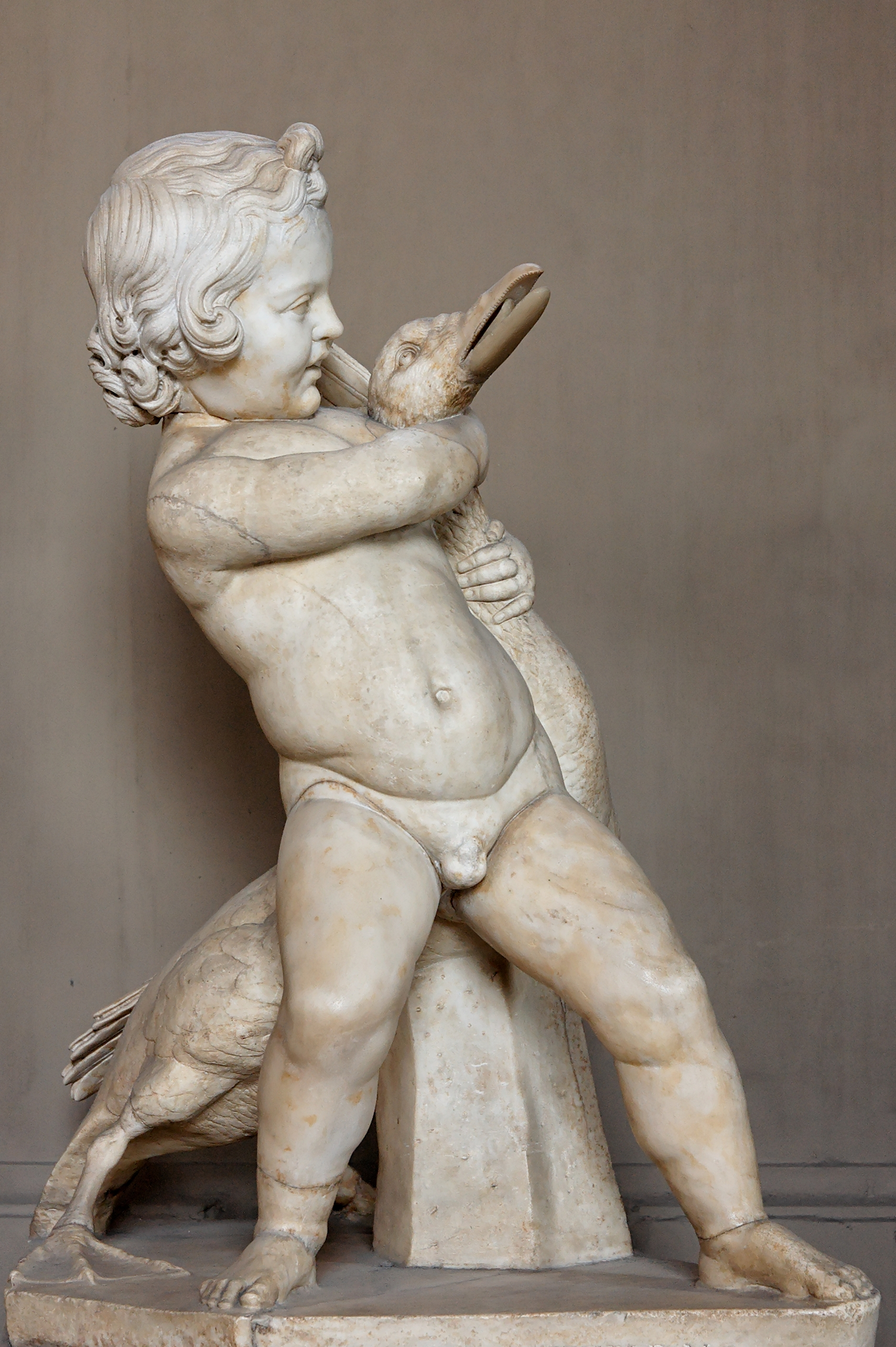 Child strangling a goose. Marble, Roman copy after a bronze original from ca. 300 BC.